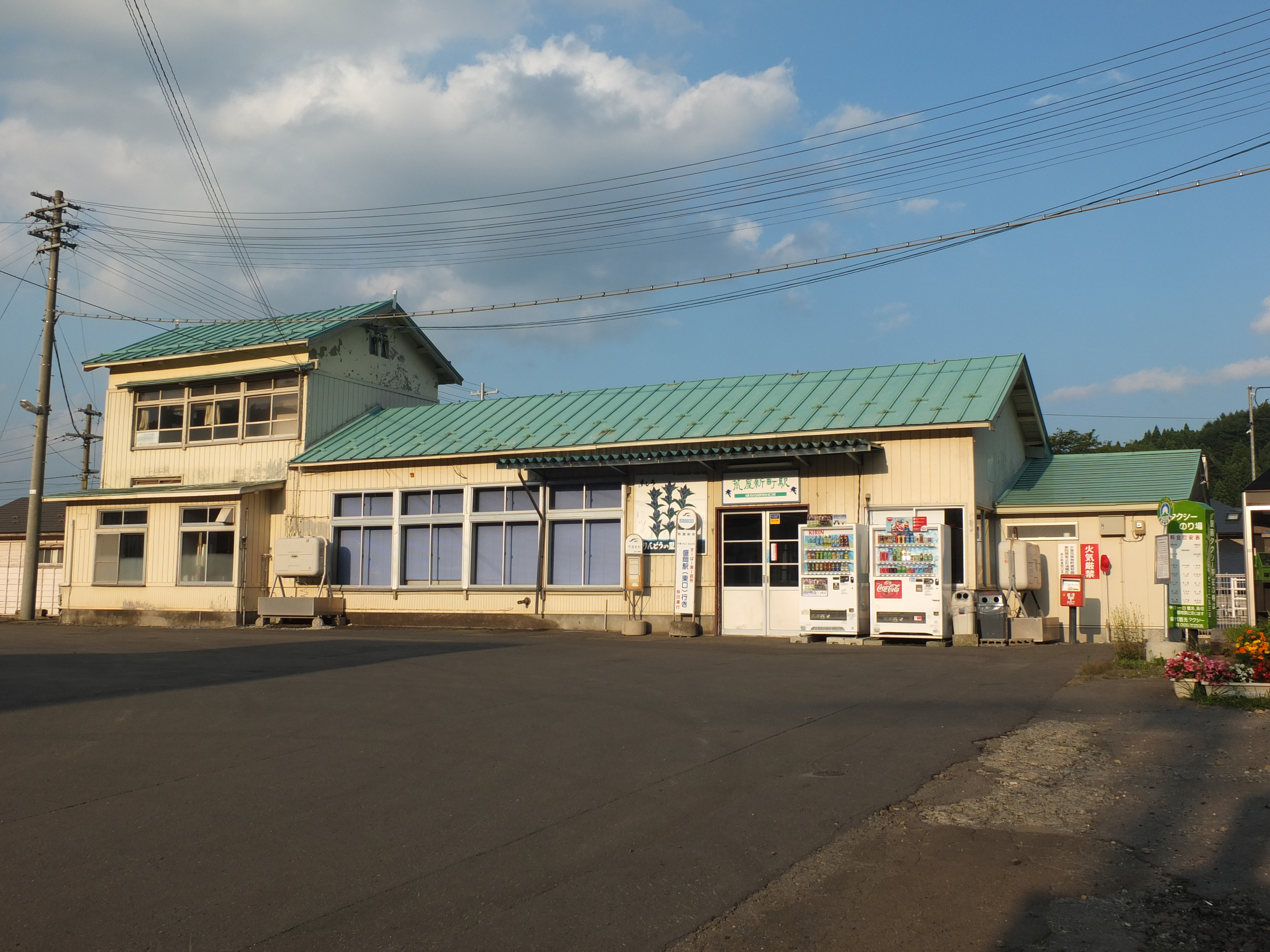 Araya-sinmati station on JR Hanawa line at Hatimantai city, Iwate prefecture, Japan.